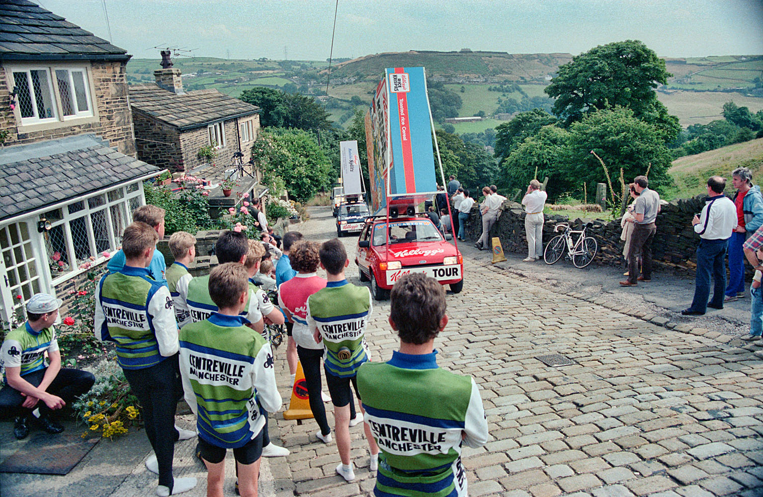 The pre-race publicity arrives ahead of the riders in the Kellogg's Tour - one of the previous incarnations of the Tour of Britain. Centreville Manchester cycling club members are prominent amongst the spectators on the outskirts of Halifax.